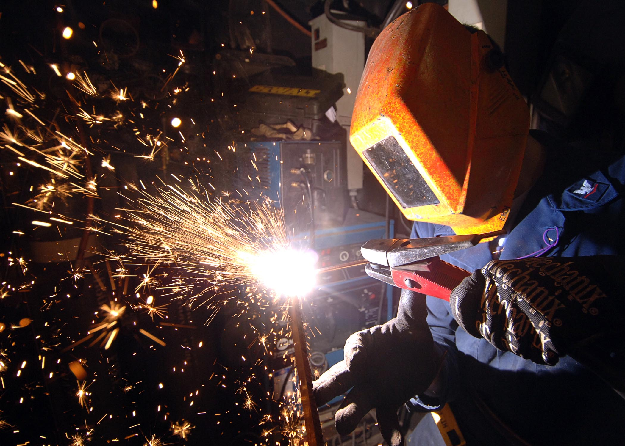 Atlantic Ocean (Nov. 14, 2005) - Hull Technician 3rd Class Jesse Delong of Bridgewater, Maine, practices cutting metal using a Carbon arc aboard the nuclear-powered aircraft carrier USS Enterprise (CVN 65). Enterprise and embarked Carrier Air Wing One (CVW-1) are currently underway in the Atlantic Ocean conducting Tailored Ship's Training Availability (TSTA). U.S. Navy photo by Photographer's Mate 3rd Class Josh Kinter (RELEASED)